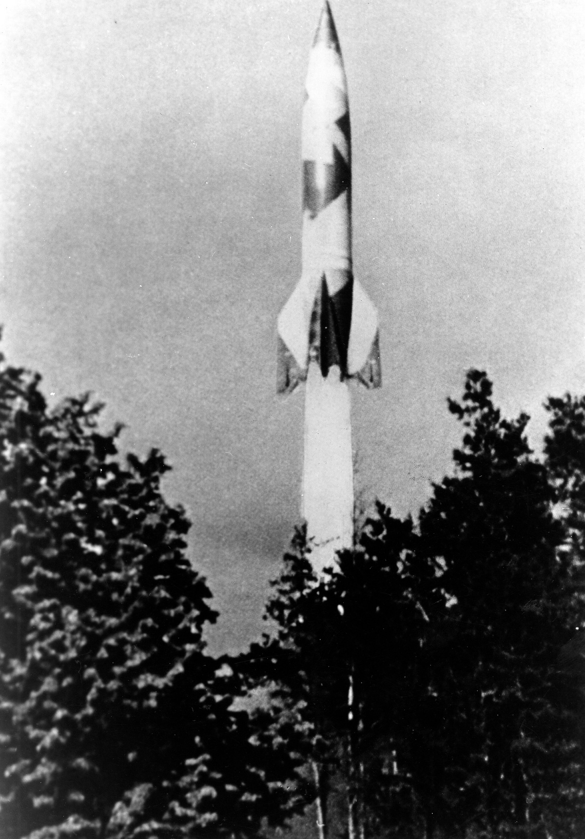 Cropped from File:Bundesarchiv Bild 141-1879. Title: Rakete V2 nach Start, Extra information: Holland, Stadtwald von Wassenaar bei Den Haag (?).- V 2-Rakete (Aggregat 4; A4) nach dem Start